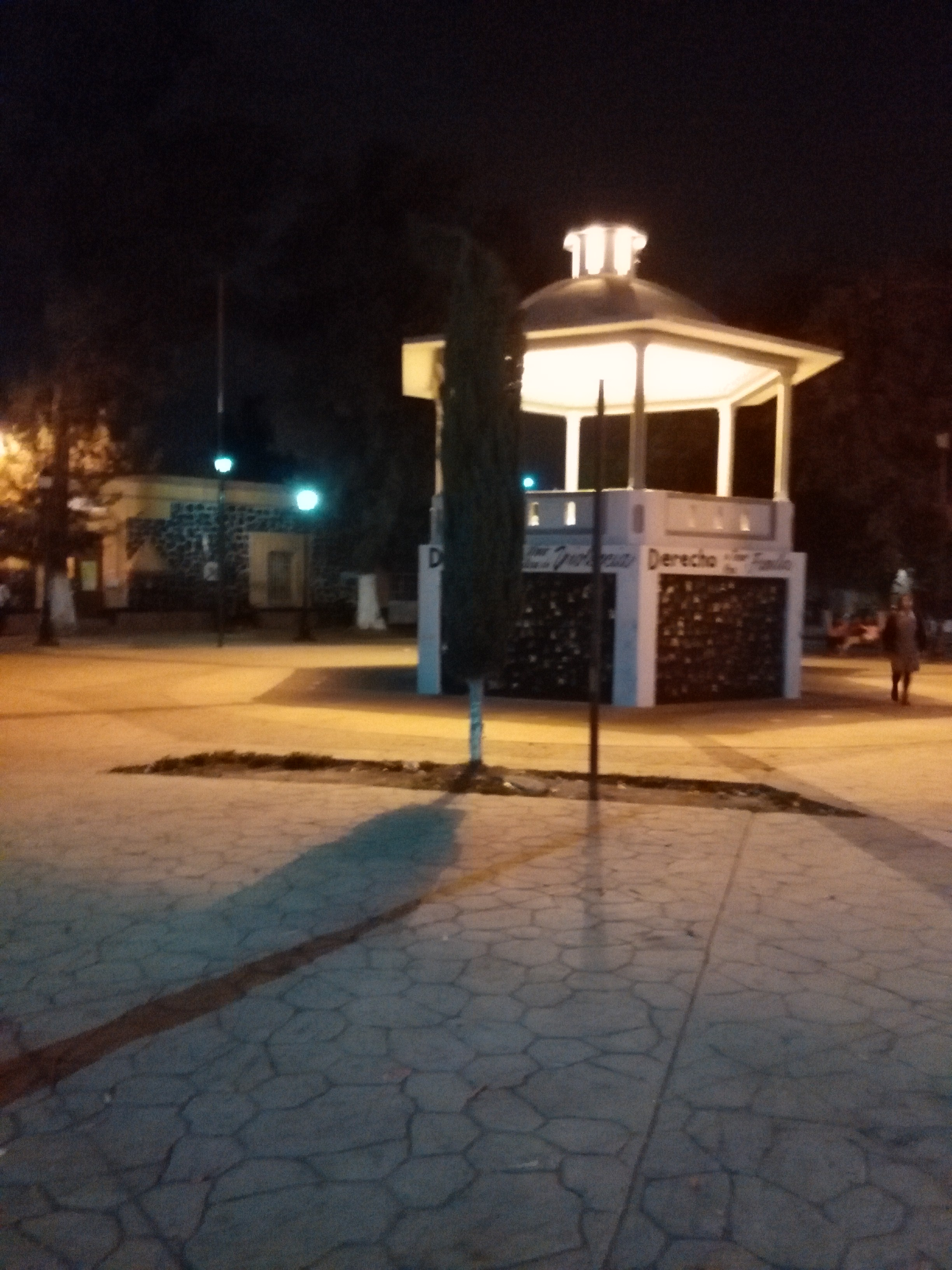 View of the central plaz of San Pablo Atlazalpan town